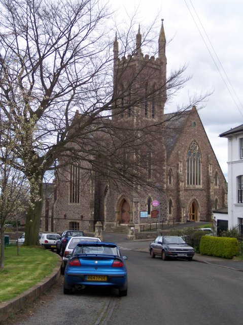 Lansdowne Crescent Methodist Church, Great Malvern, Worcestershire